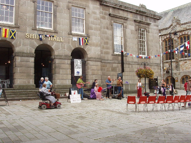 Shire Hall, Bodmin. This houses a Tourist Information Centre, a theatre, and the "Courtroom Experience". "Built between 1837 and 1838 the Shire Hall is an architectural gem with its extraordinary interior cantilevered staircase and the imposing solid granite front facade. Used as the County Court until 1988 the building has now been carefully restored to its original glory by Bodmin Town Council using funds from the Lottery and from the European Fund", says its website